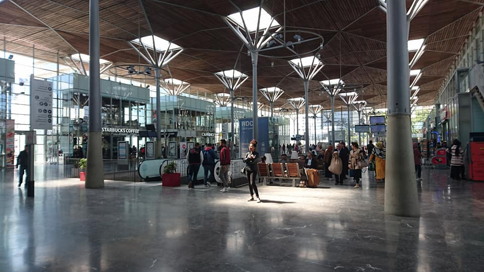 Inside Casaport train station in Casablanca